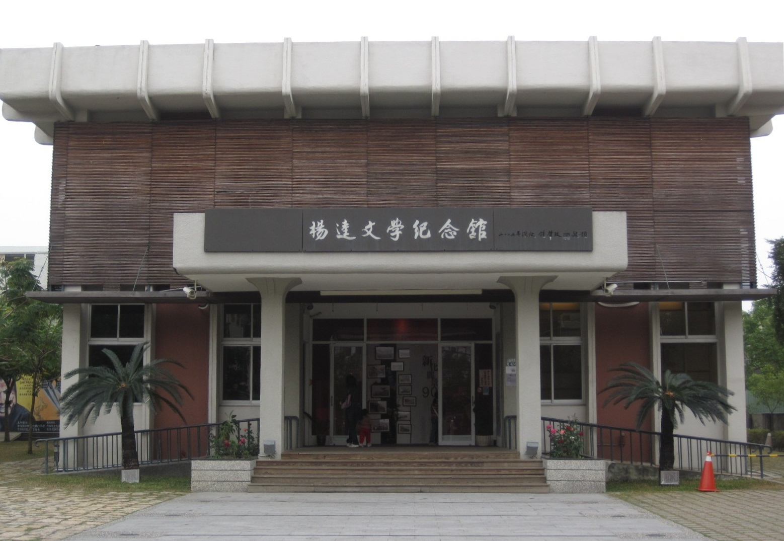 Yang Kui Literature Memorial Museum, Xinhua District, Tainan City, Taiwan